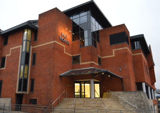 Wey House in Guildford, Surrey. HQ for Media Molecule.